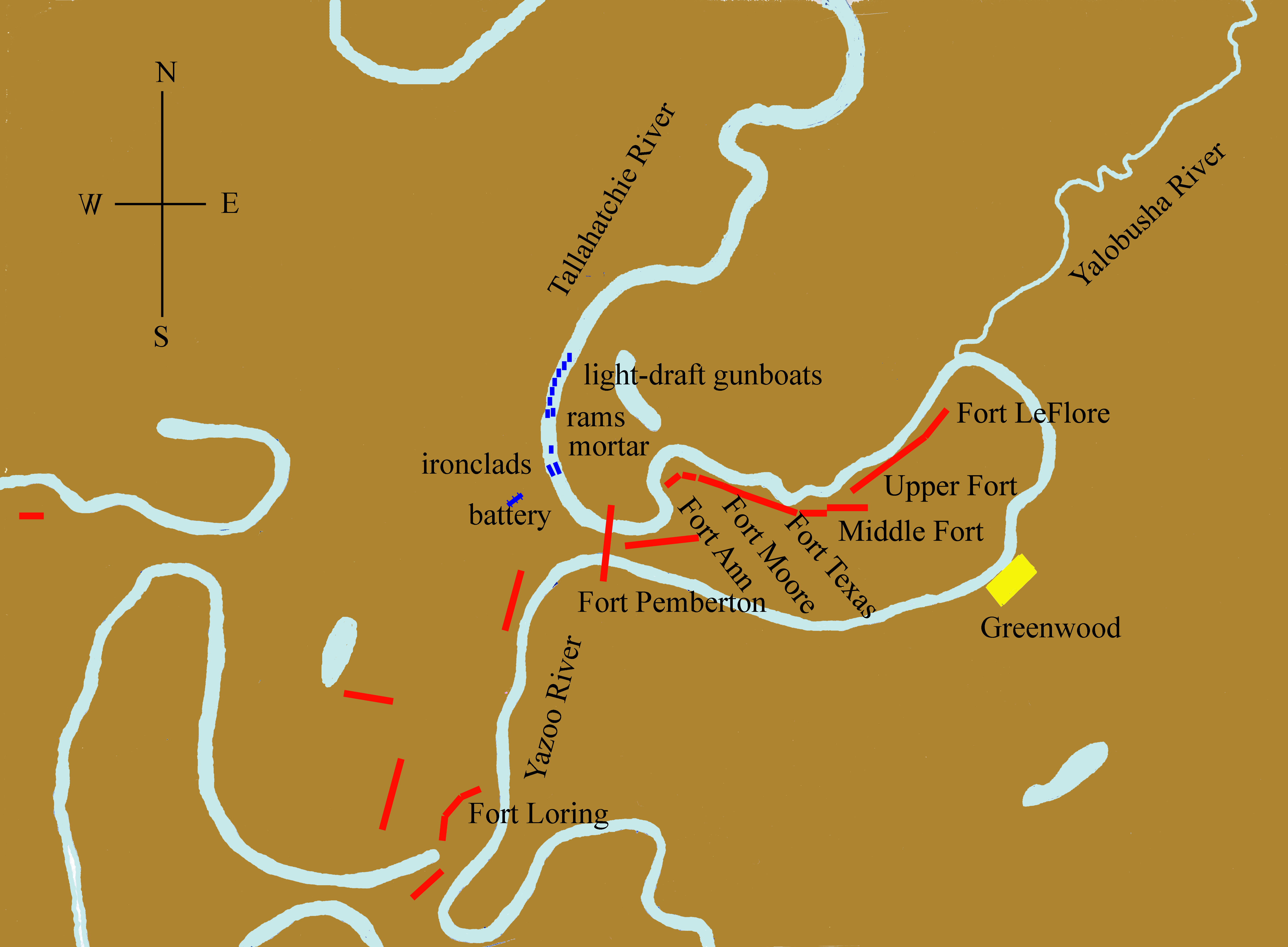 Opposing forces near Greenwood, Mississippi, in the Yazoo Pass Expedition of the American Civil War (March 1863).